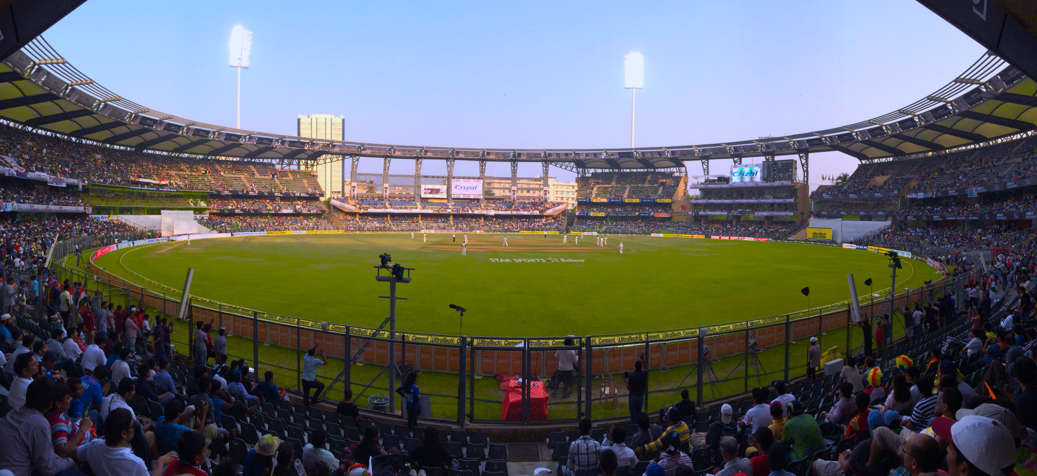 500px provided description: SRT 200 [#srt 200 ,#wankhede stadium]